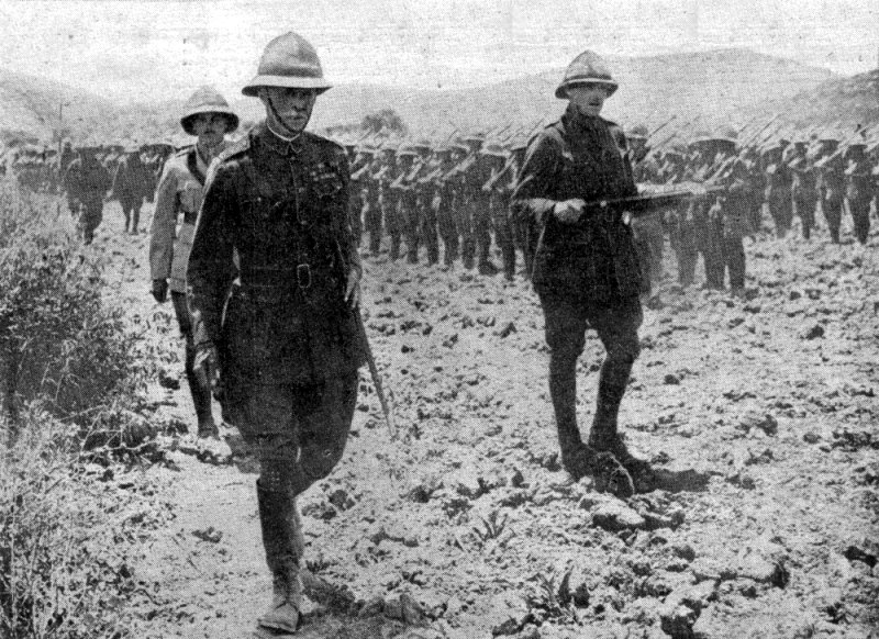 General Sir Ian Hamilton, commander-in-chief of the Mediterranean Expeditionary Force, inspecting the Royal Naval Division during the Battle of Gallipoli, 1915. Caption reads: General Sir Ian Hamilton leaving for his Headquarters after having inspected the Royal Naval Division, which is seen lined up in the background. The Commander-in-Chief's task for the Empire in the Levant has been regarded as one of the most difficult undertakings in the history of warfare.